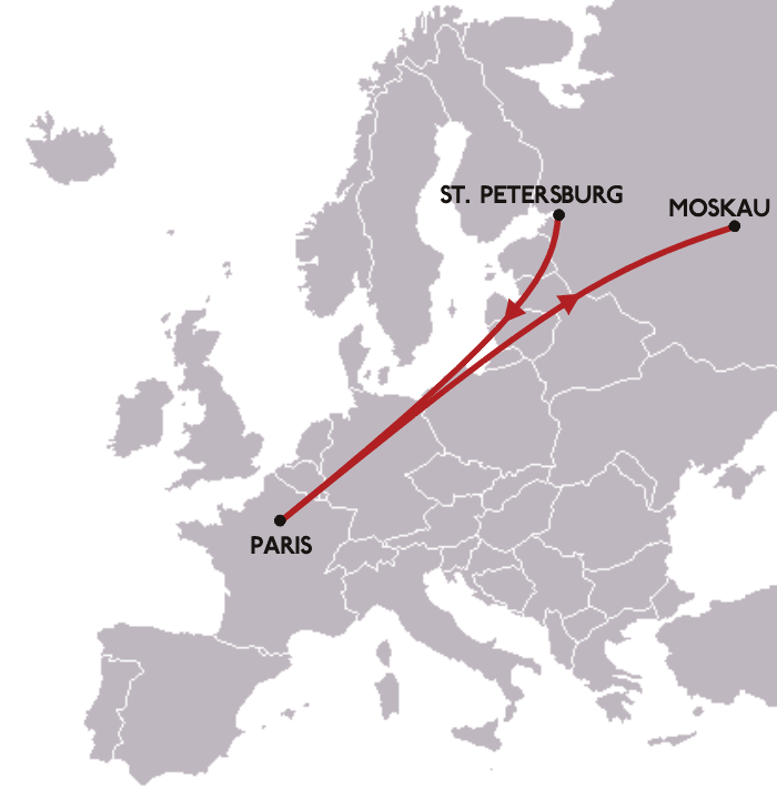 Open Jaw Flight